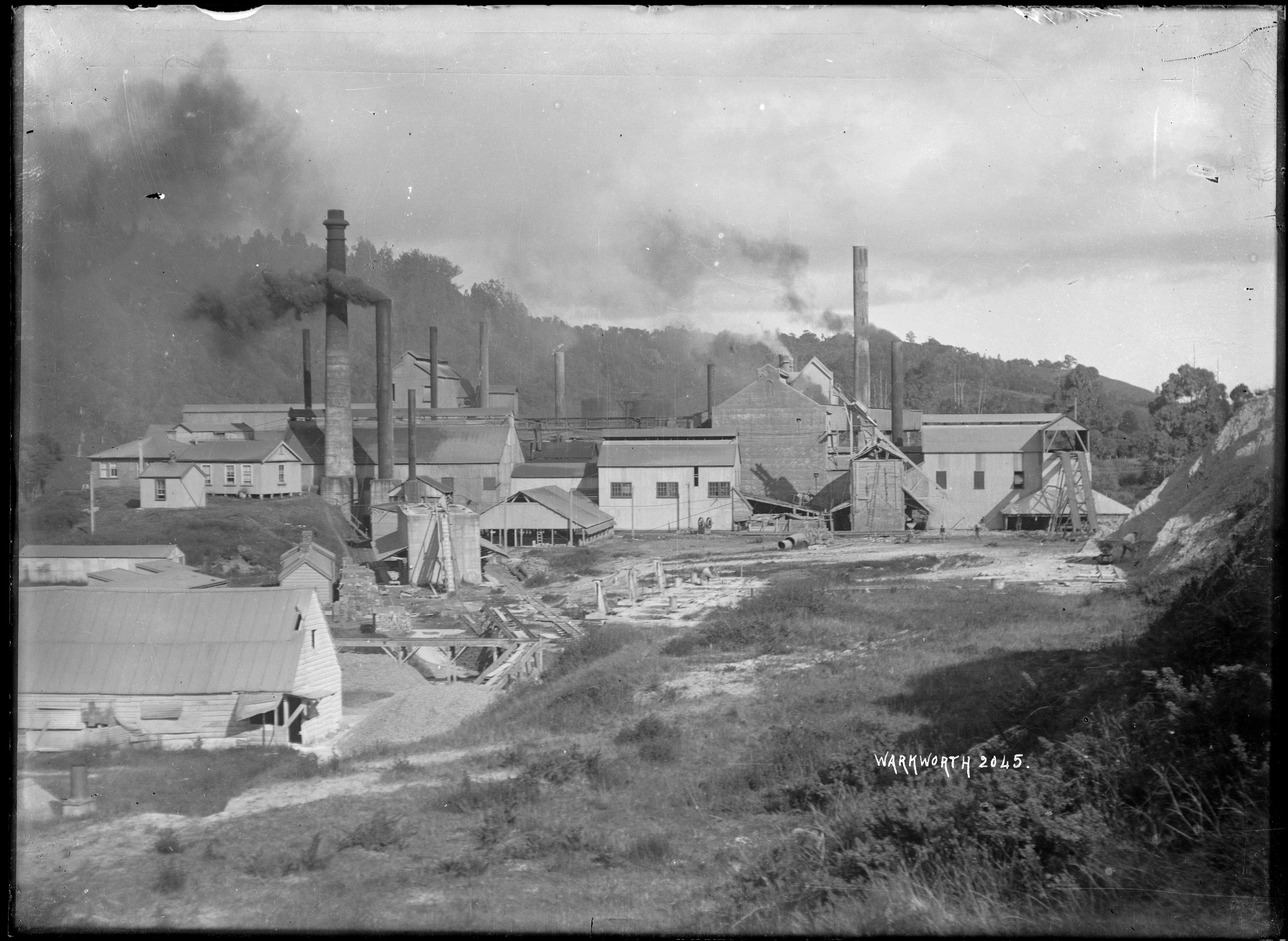 Shows Portland Cement works, Warkworth with black smoke coming through chimneys. Photograph taken by William Price ca 1910. Inscriptions: Inscribed - Photographer's title on negative -bottom right: Warkworth. 2045. In 1865 Wilson Portland Cement Company started operations. In 1918 the Company amalgamated with the New Zealand Portland Cement Co Ltd at Portland, Whangarei. The new firm was named Wilsons (NZ) Portland Cement Co Ltd. All that remains of the Warkworth plant now are the castle-like ruins of the works by the river. Quantity: 1 b&w original negative(s). Physical Description: Dry plate glass negative 4.75 x 6.5 inches Wilson Portland Cement Works, Warkworth, Rodney County. Price, William Archer, 1866-1948 :Collection of post card negatives. Ref: 1/2-000595-G. Alexander Turnbull Library, Wellington, New Zealand.